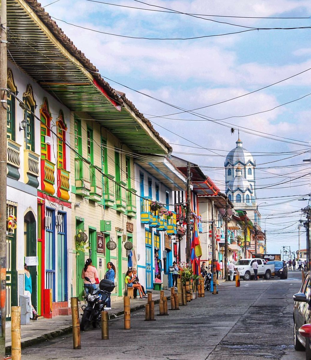 calle del tiempo detenido, filandia, colombia